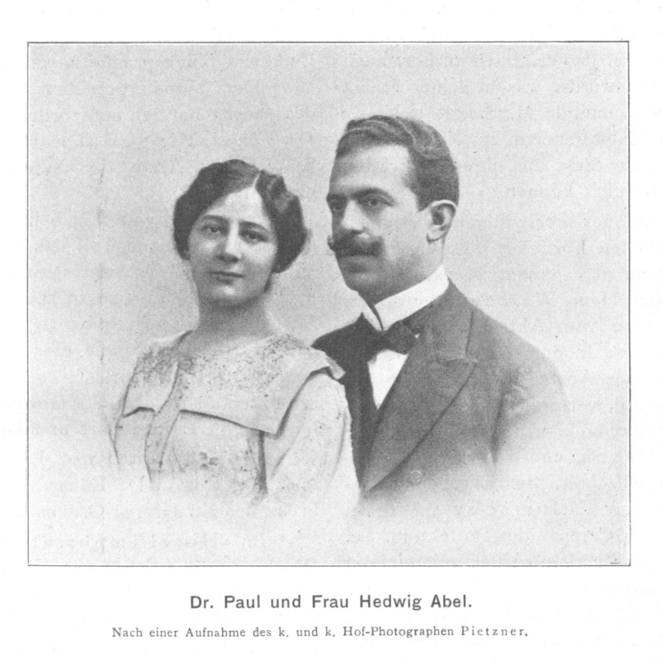 Portrait of Paul Abel (1874-1971), Austrian and later British lawyer, with his wife Hedwig.